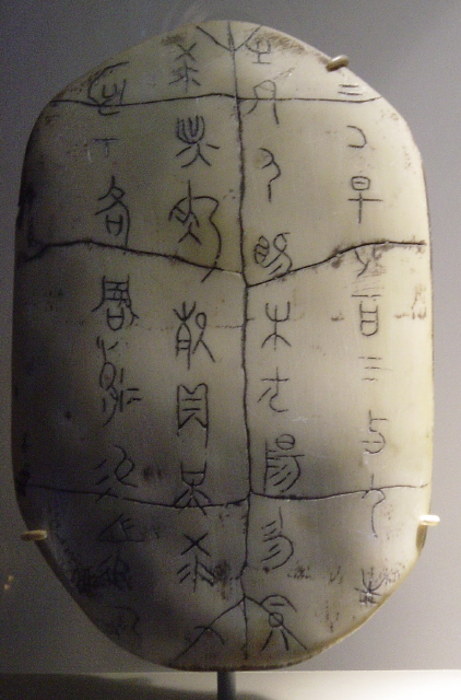 Oracle shell with inscriptions This is a replica of an oracle turtle shell with ancient Chinese oracle scripts inscribed on it. Since this is a replica, the color may not be truthful to the real specimen. This photo was taken in July 2004 from an exhibit at Chabot Space and Science Center in Oakland, California.